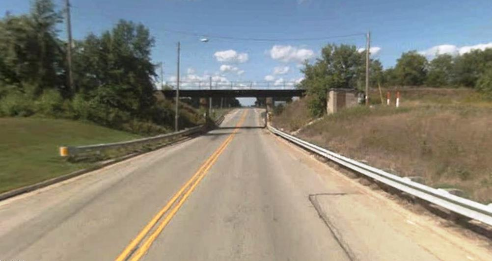 Canadian National Railway overpass in Black Creek, Wisconsin